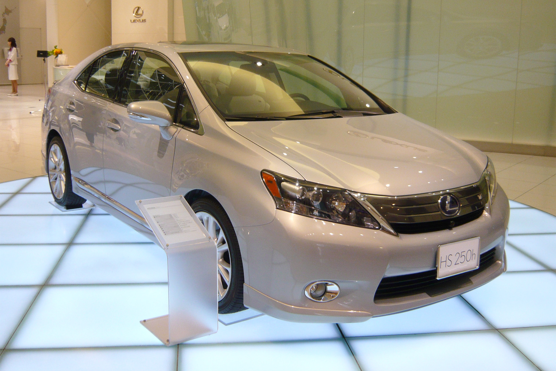 HS250h